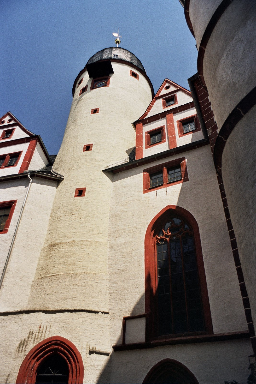 Rochsburg Castle - keep